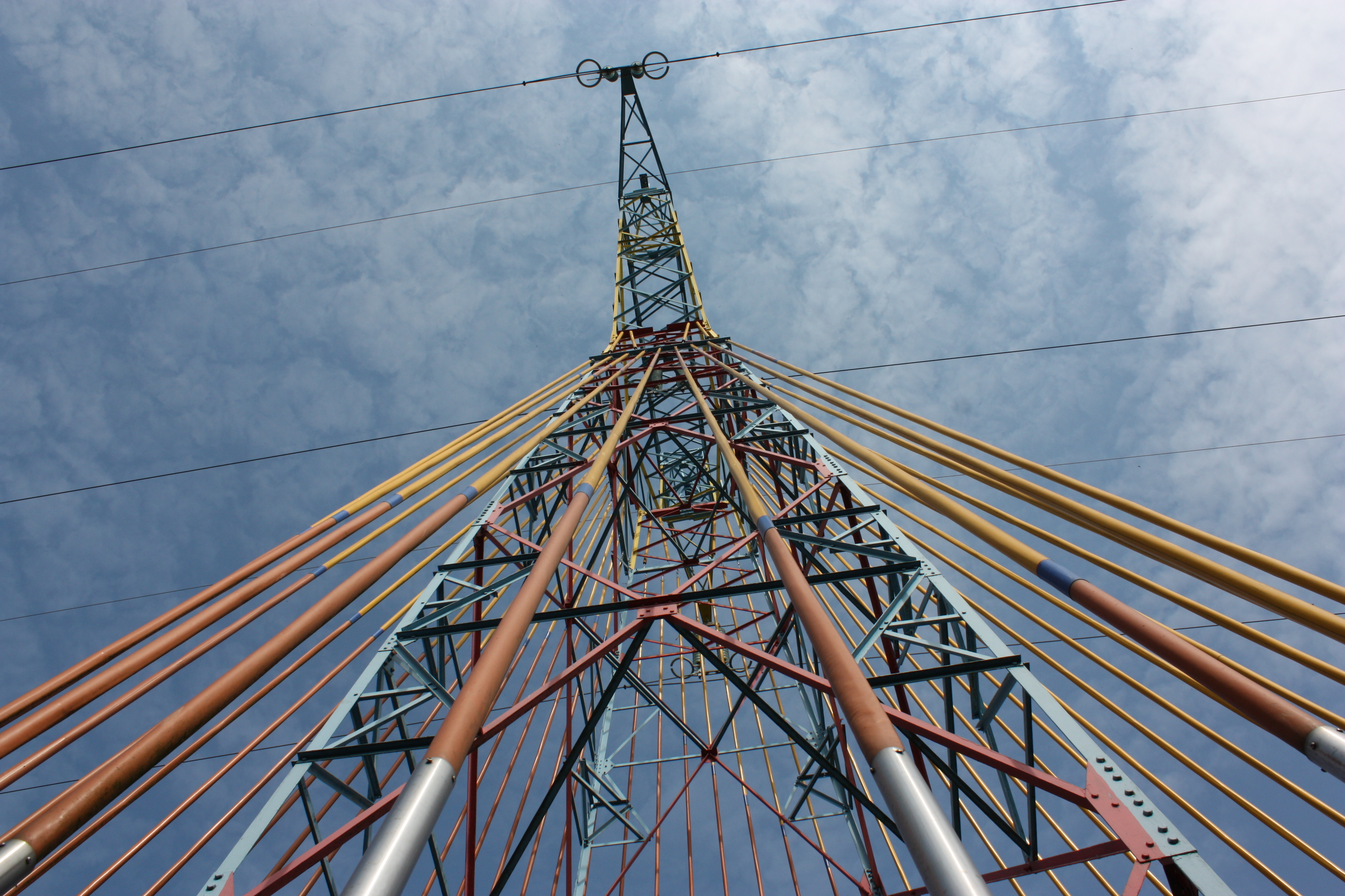 Transmission line into art work The artwork "Source" is unique because of its concept and its dimensions. It is a monumental art installation on a 225 000 volts High Voltage power line "Amnéville–Montois" France. Four high-tension towers and 1.5 kilometers of the line are transformed into works of art. Artist: Elena Paroucheva, Sponsor and management: RTE France. Localisation: Amnéville les Thermes, France